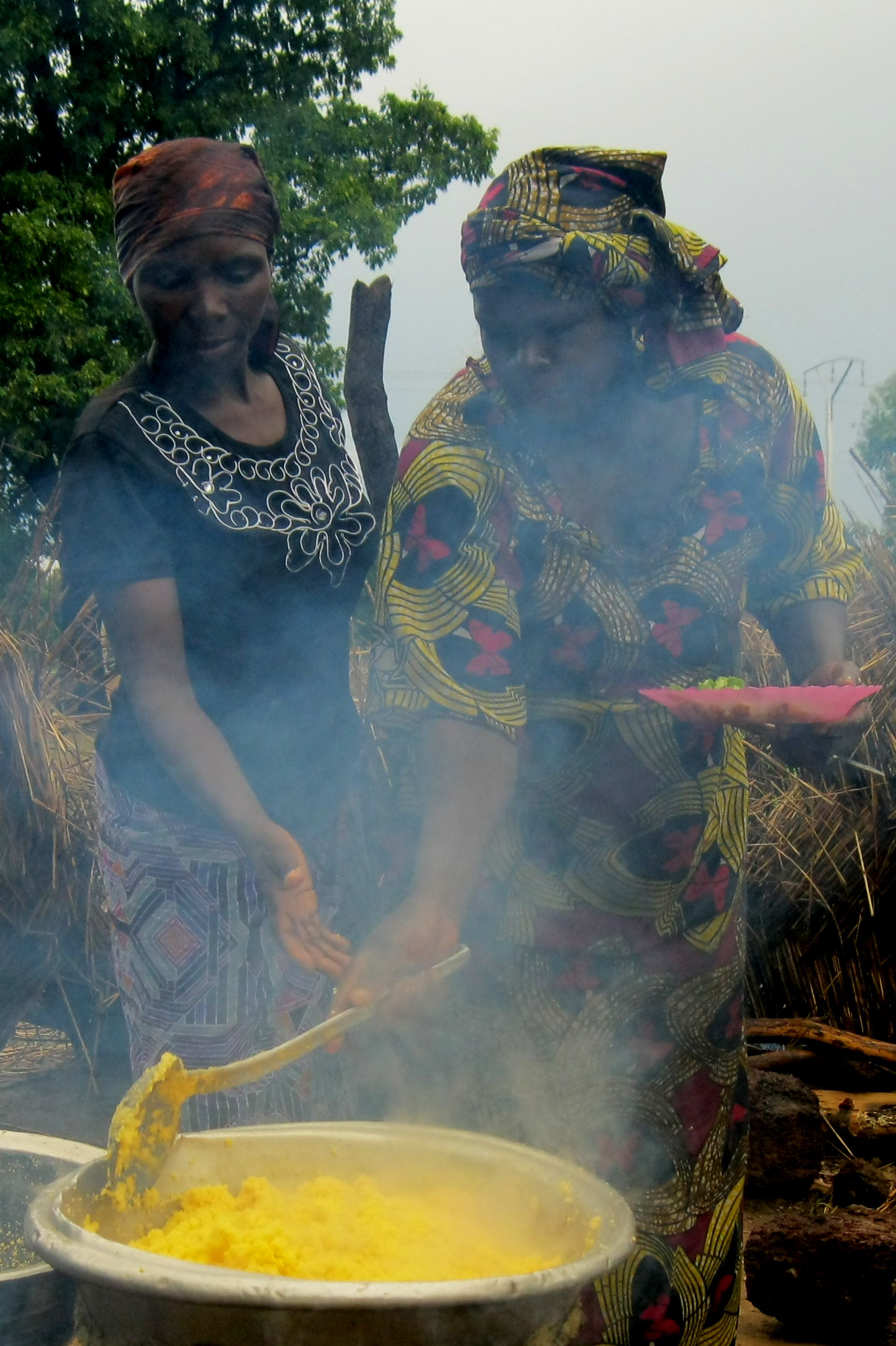 Two women preparing Tô, a traditional burkinabé dish, Burkina Faso